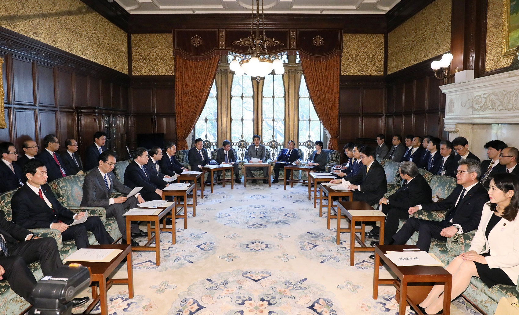 Shinzō Abe, Prime Minister, and the Ministers attended a meeting of the Novel Coronavirus Response Headquarters at the National Diet Building in Chiyoda Ward, Tōkyō Metropolis on January 30, 2020.